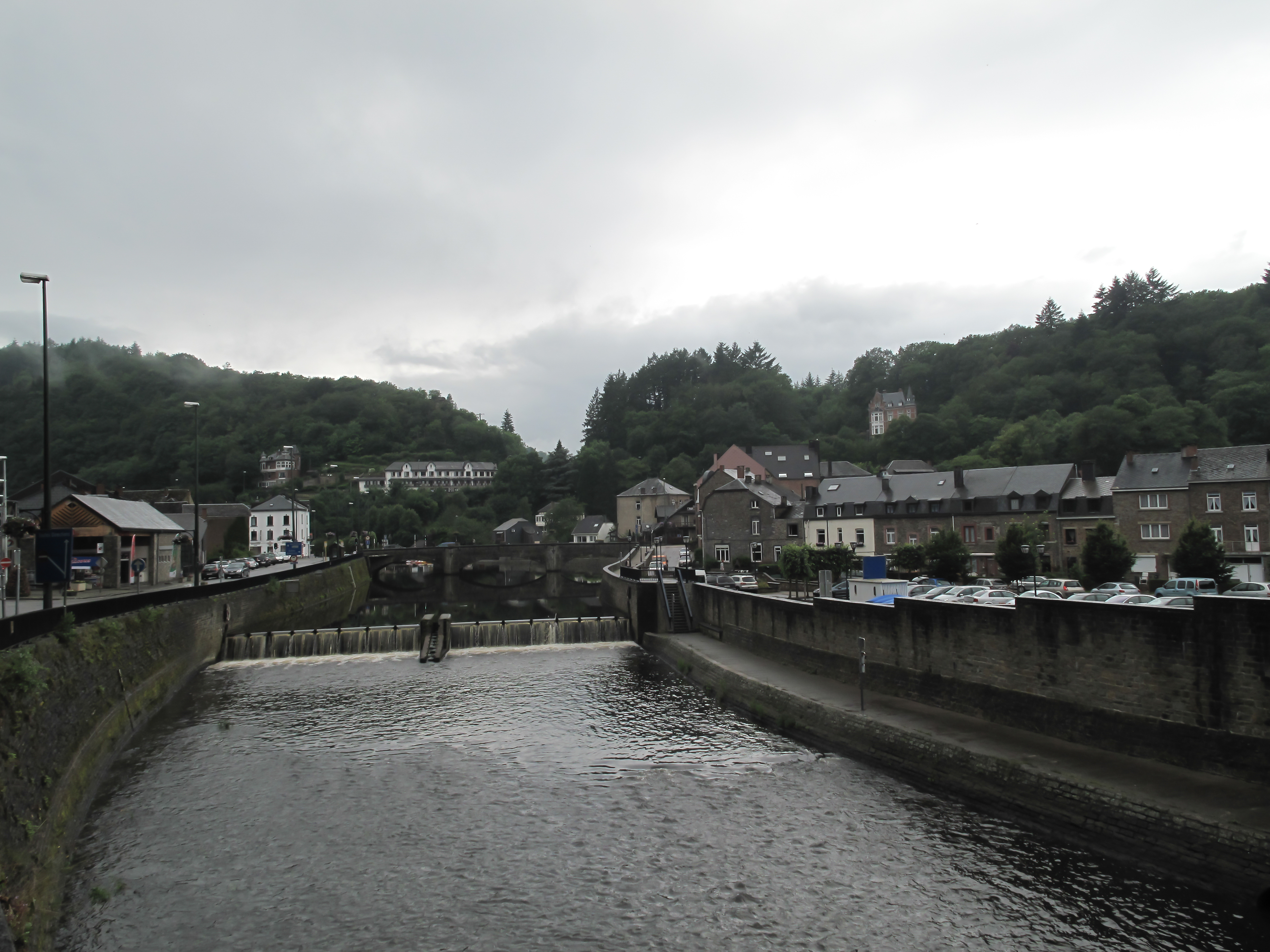 La Roche, view to the town and river the Ourthe